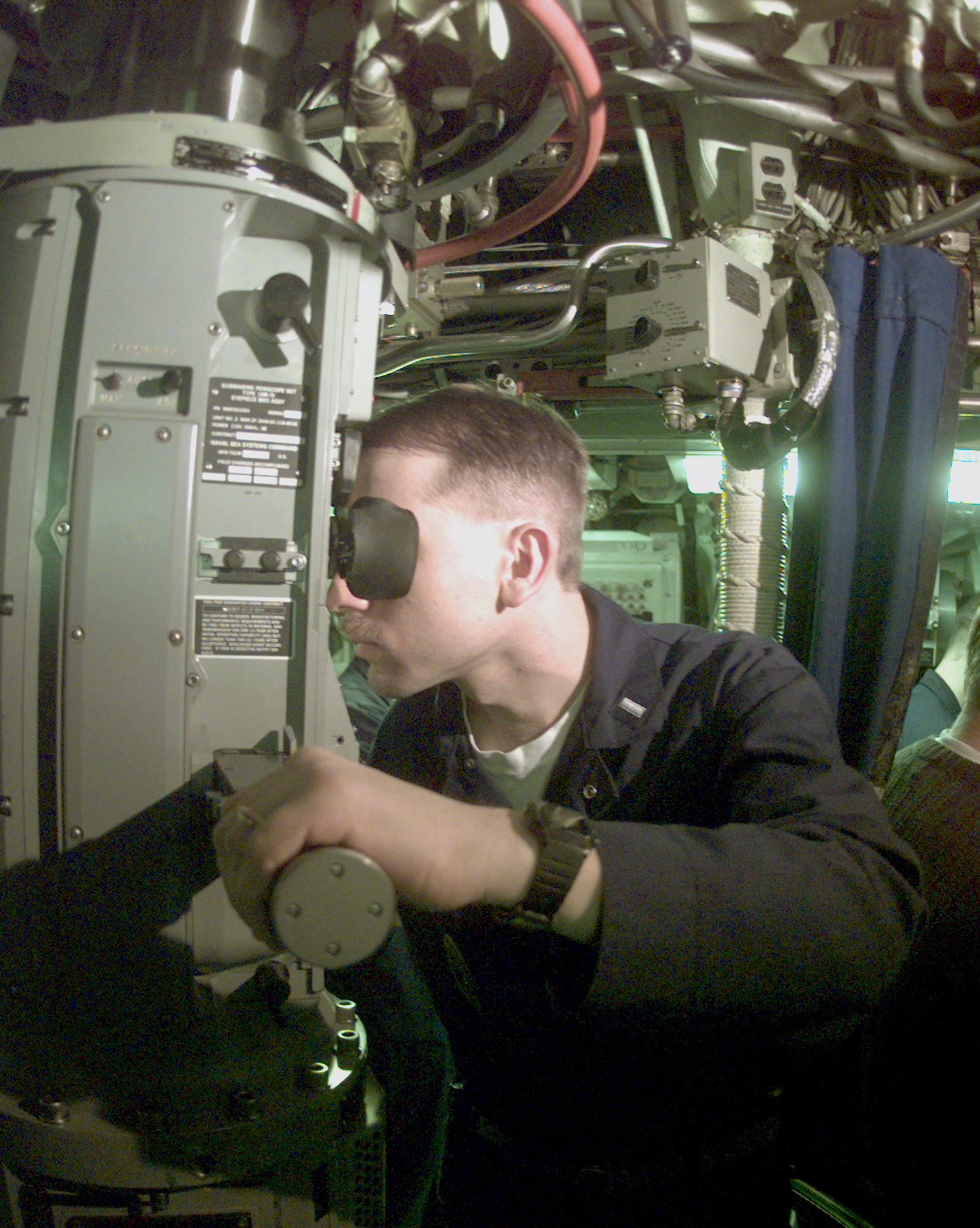 Aboard the Los Angeles Class Attack Submarine USS Norfolk (SSN 714) Mar. 31, 2002 -- Officer of the Deck, Lieutenant Junior Grade Randy Kouba, from Pisek, North Dakota, performs a visual inspection through the boats periscope of the surface area around the boat. USS Norfolk is currently deployed in support of the NATO-led operation Allied Force in Yugoslavia, and is capable of launching "Tomahawk" cruise missiles. U.S. Navy Photo by Photographer's Mate 3rd Class Renso Amariz. (RELEASED)